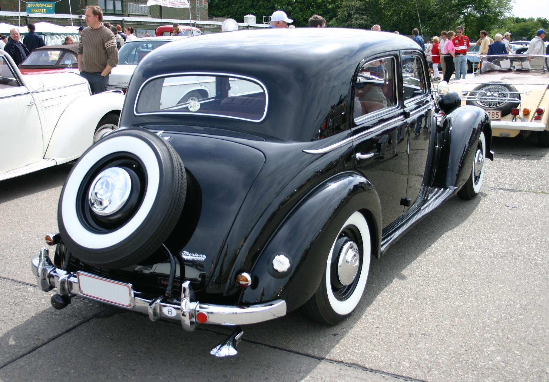 Description: Mercedes-Benz 170 (1948) Taken at carshow in Belgium